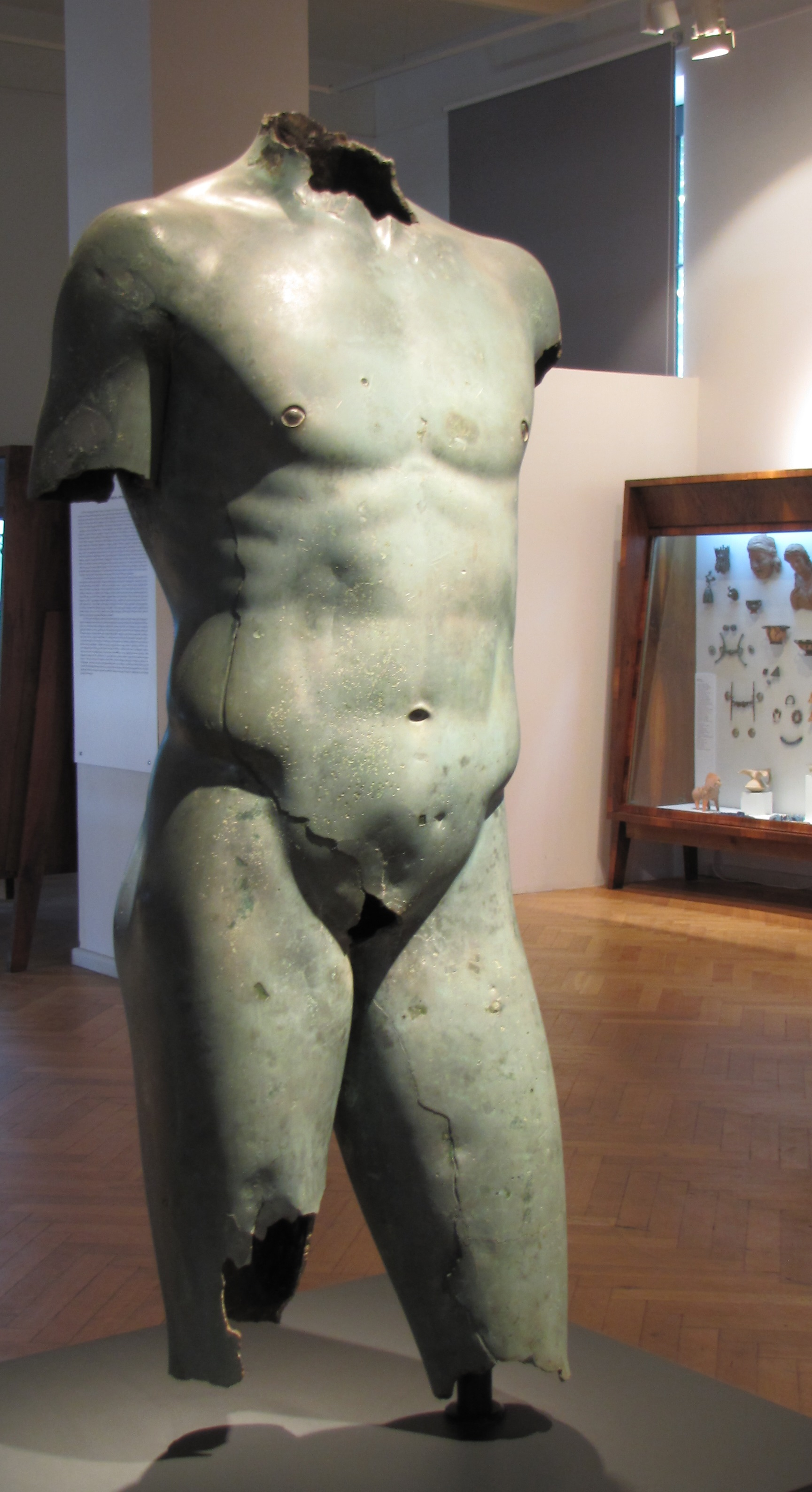 Van bronze Torso. Discovered in ancient Vani (western Georgia) in 1988, this torso is probably a Hellenistic work dating to 2nd century BCE